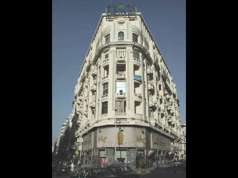 The Sednaoui Department Store , a circa early 1900s Beaux-Arts style building on Qasr el-Nil Street at Talaat Harb Street, in Downtown Cairo.